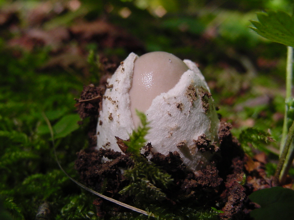 Amanita vaginata photographed in Trentino (Italy)